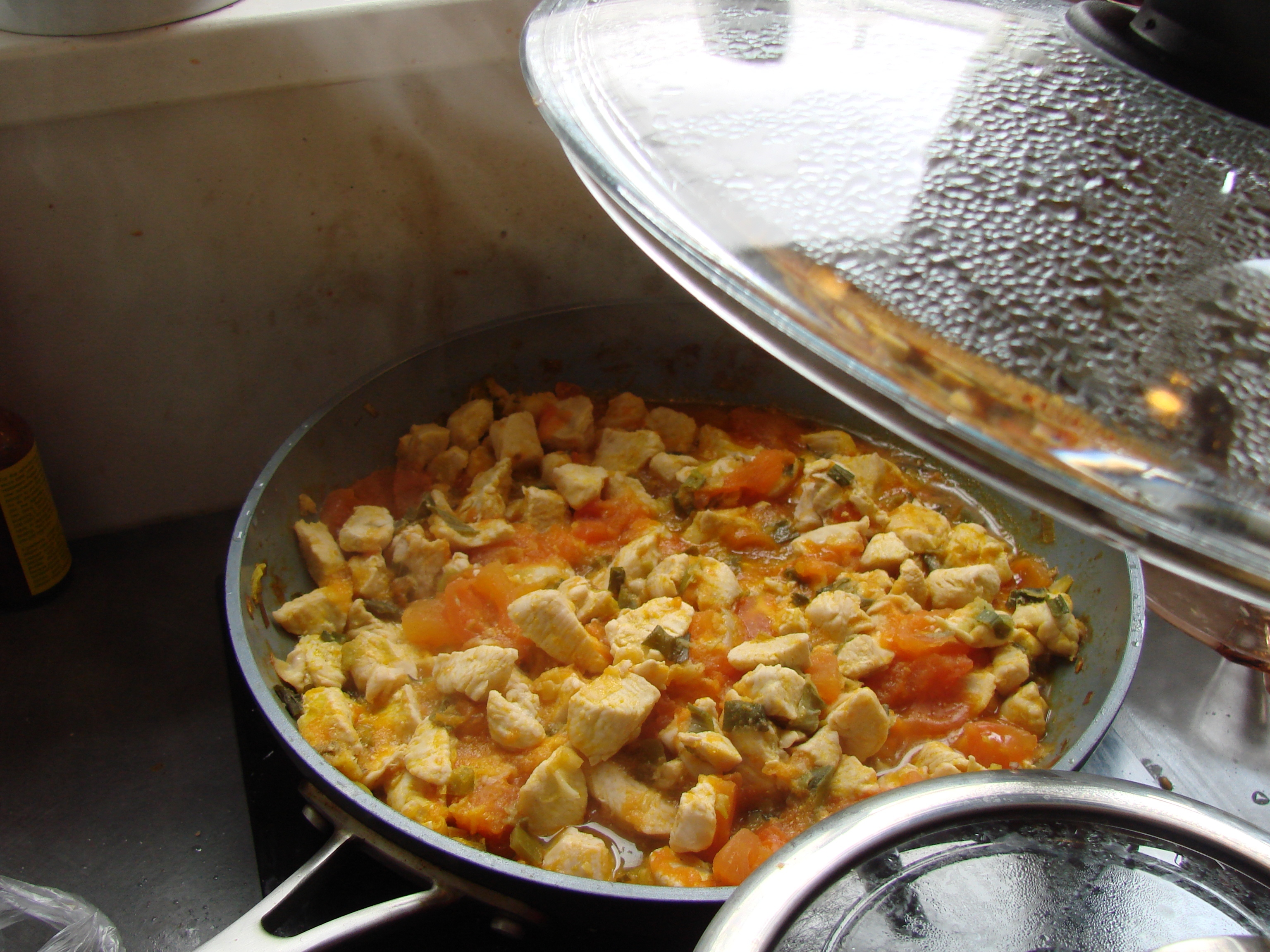 Cooking jasha maroo, a traditional Bhutanese dish consisted of minced chicken, tomatoes, spring onion, garlic, ginger and chilies.